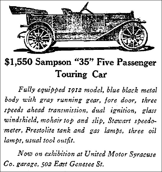 A 1912 Sampson Advertisement - Five passenger touring car